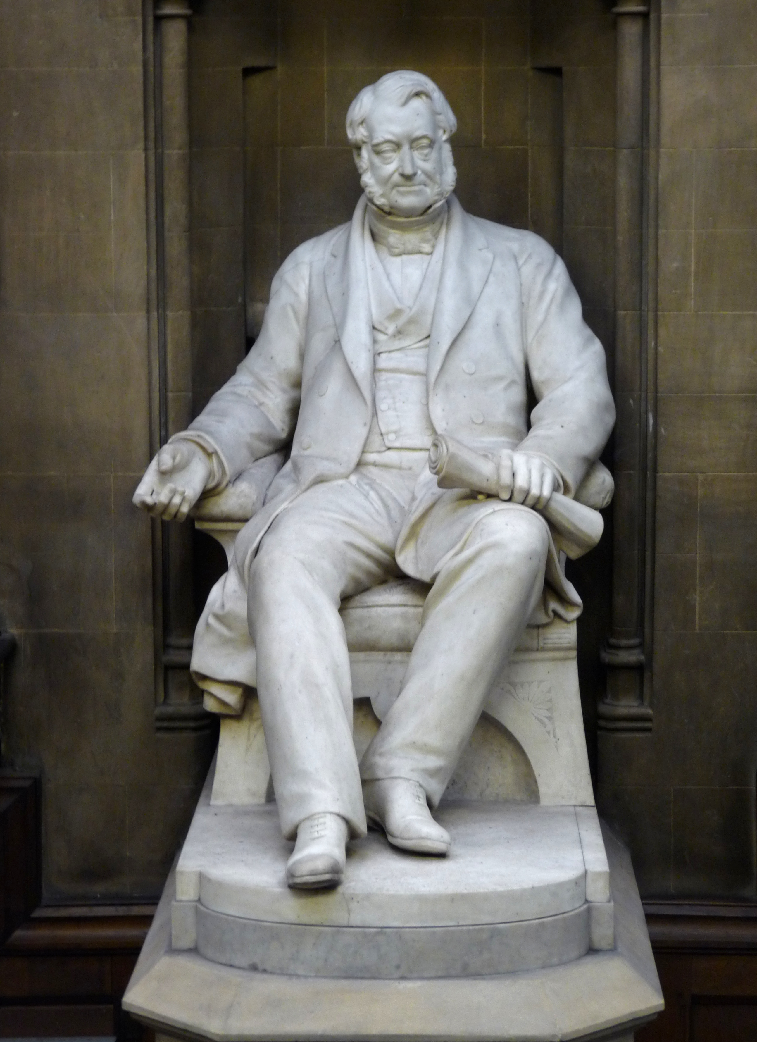 The statue of Nicholas Wood in the library of the North of England Institute of Mining and Mechanical Engineers in the Neville Hall and Wood Memorial Hall.